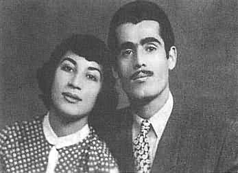 Foroogh Farokhzad (Iranian Poet) and Parviz Shapour